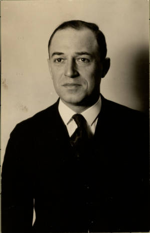 J. J. Liebenberg (1893-1985)